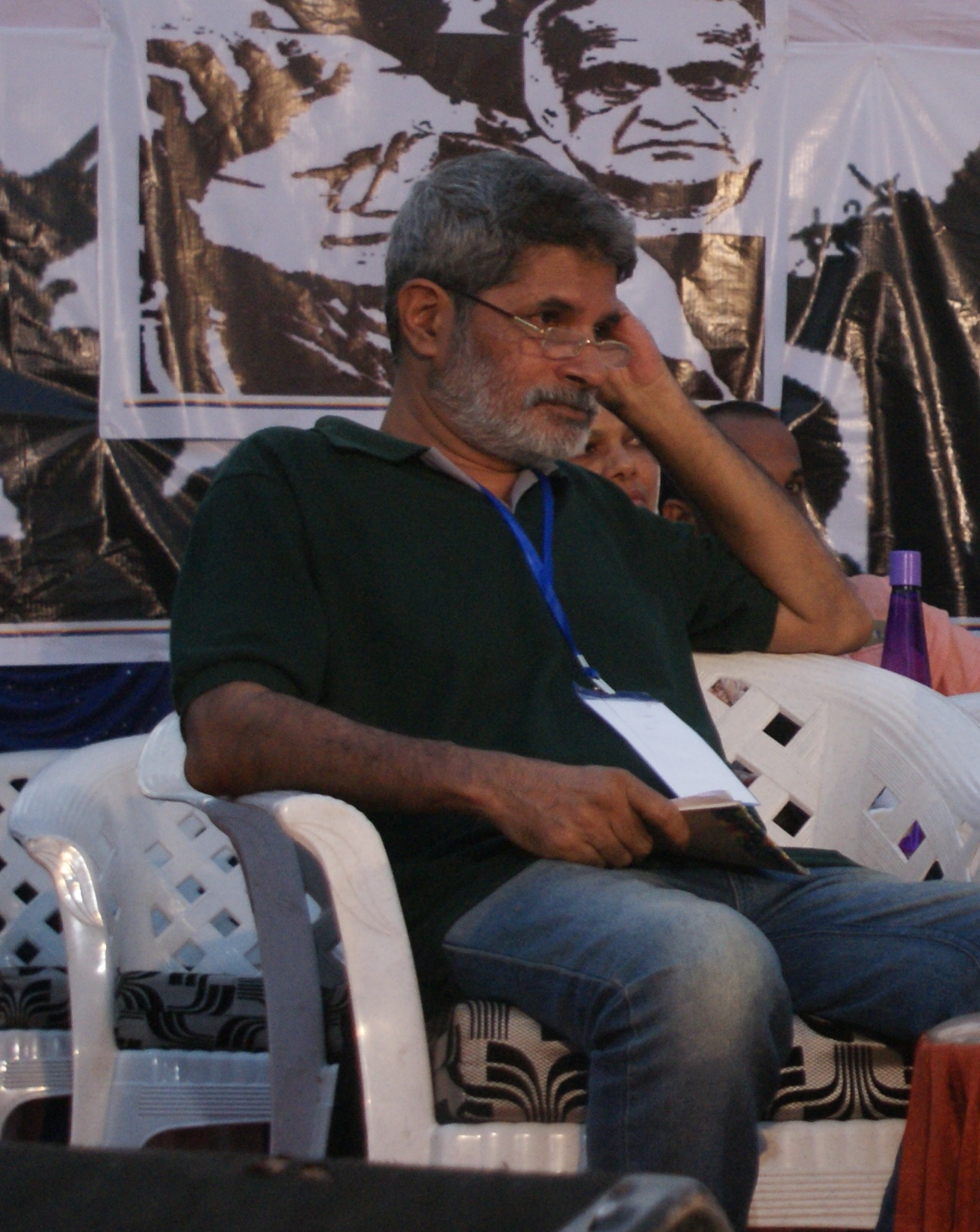 Kpsasi in solidarity stage